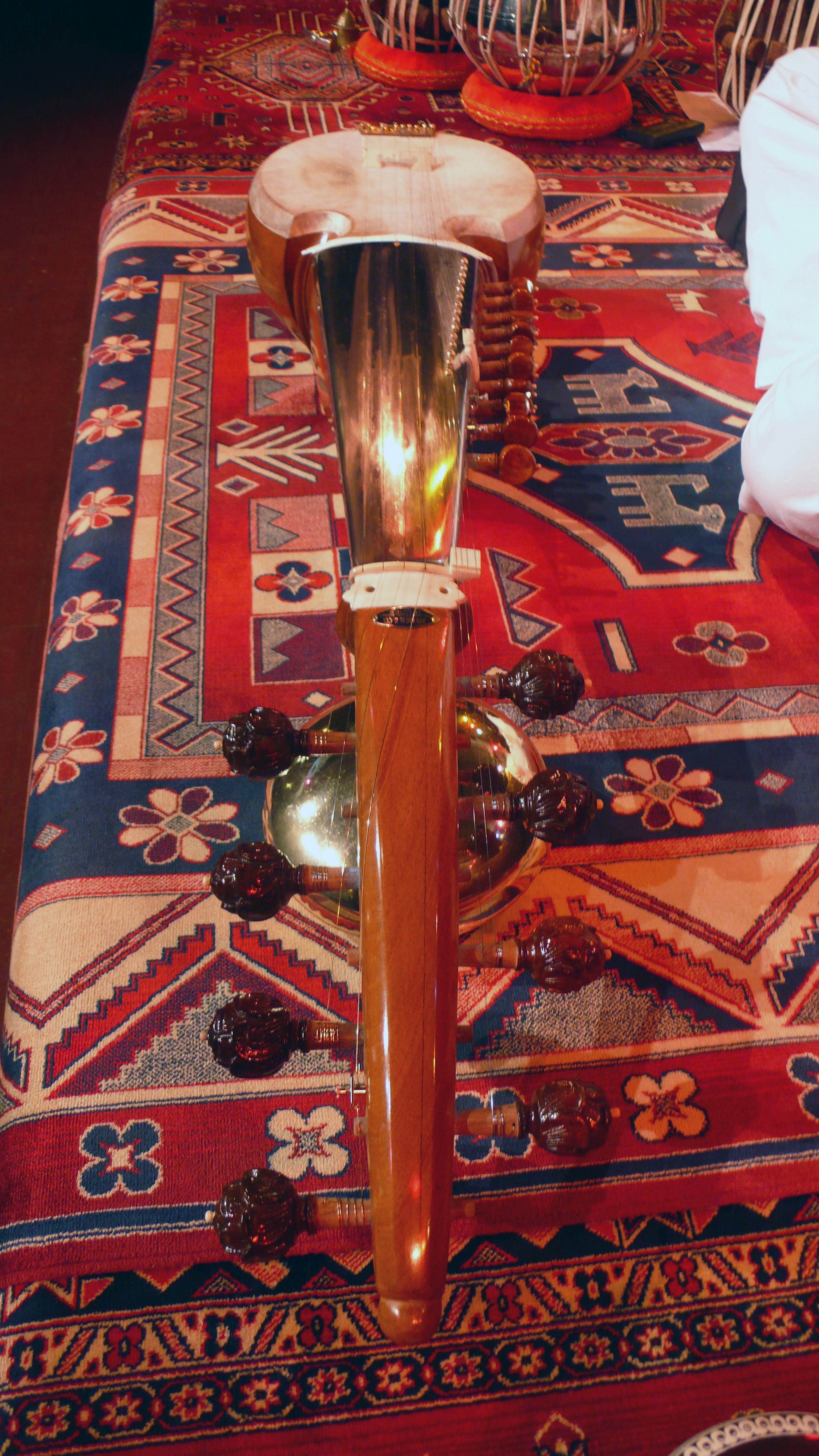 Ken Zuckerman gave a wonderful concert at CVC to help raise money for the drama students to take their production of the Academy of Death to the Edinburgh Festival. He played the sarod with amazing flair. The first half of the concert was Indian ragas (with Sanju Sahai on tabla and Gilda Sebastian on tanpura) while the second half was Dominique Vellard singing medieval European songs with Zuckerman & Sahai improvising based on the ragas between the verses and after each song. Zuckerman introduced each piece by saying which mode it was in (Aeolian, Mixolydian, etc) to highlight the similarities in modal harmony in Eastern and Western music. [1]